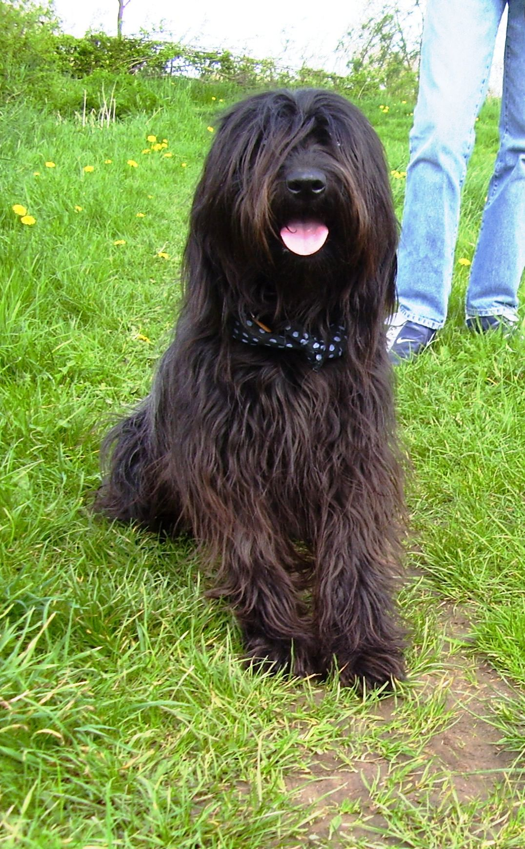 Dog "Gos d'Atura"